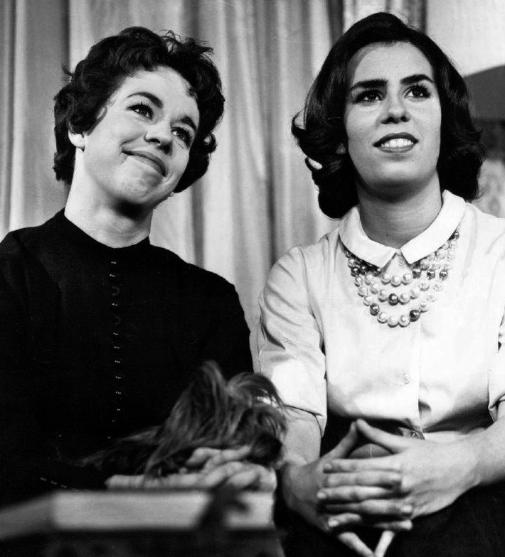 Publicity photo of Carol and Christine Burnett from the television show Person to Person.